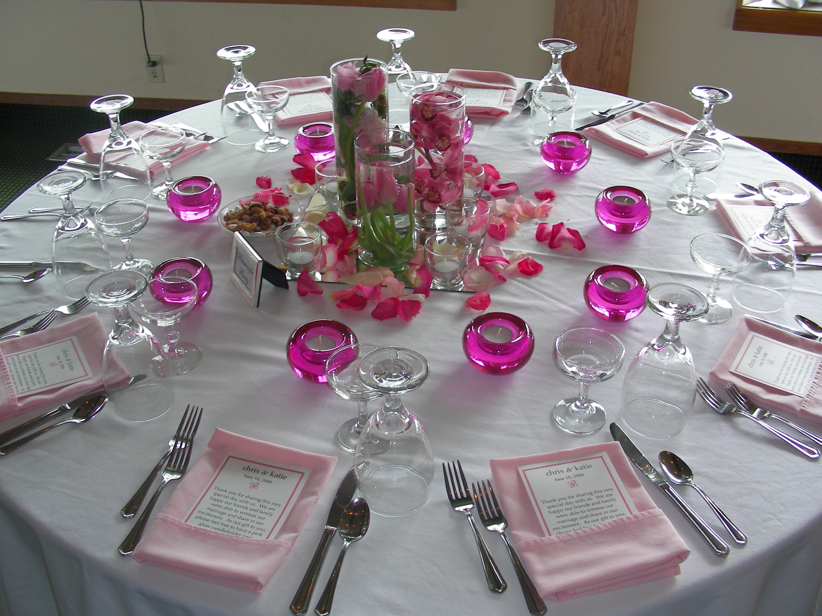 Table setting at a wedding diner